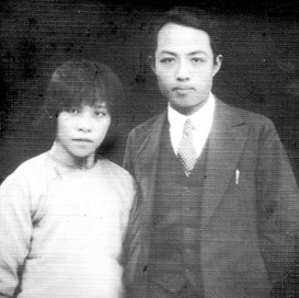 Lu Yin and husband. She died in 1934